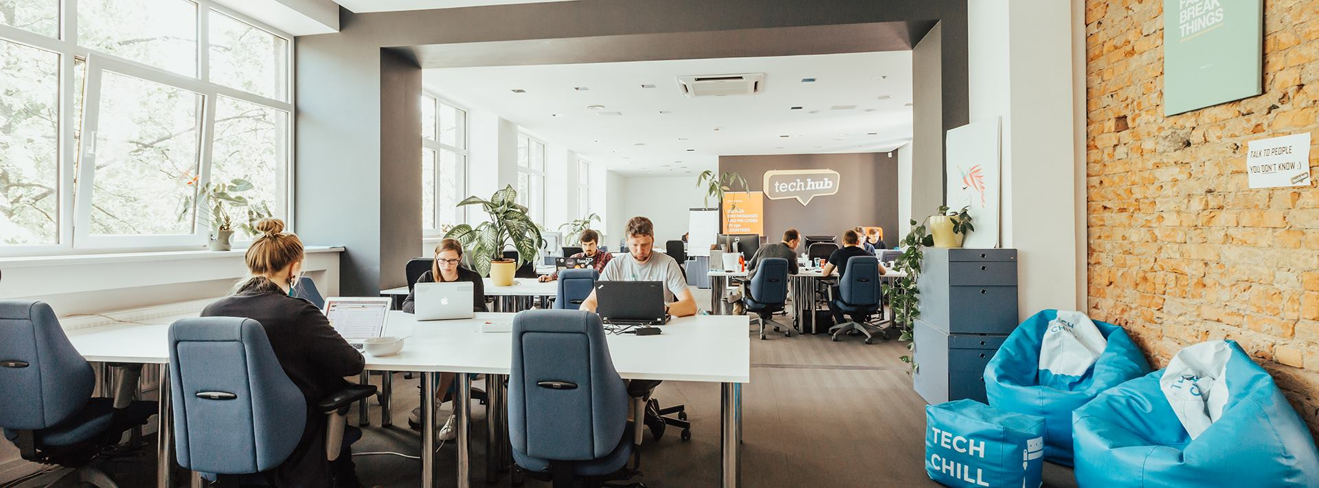 TechHubRiga